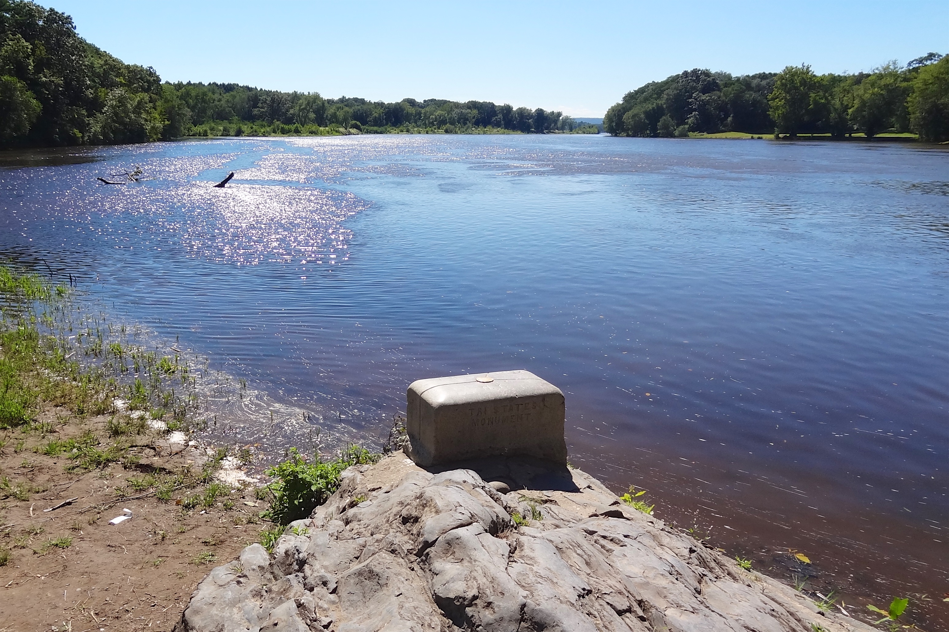 The Tri-States Monument, marking the boundary of the states of New Jersey, New York, and Pennsylvania, is located at the confluence of the Delaware and Neversink Rivers. View looking southwest along the Delaware River marking the boundary between New Jersey and Pennsylvania. The Neversink River enters from the left.